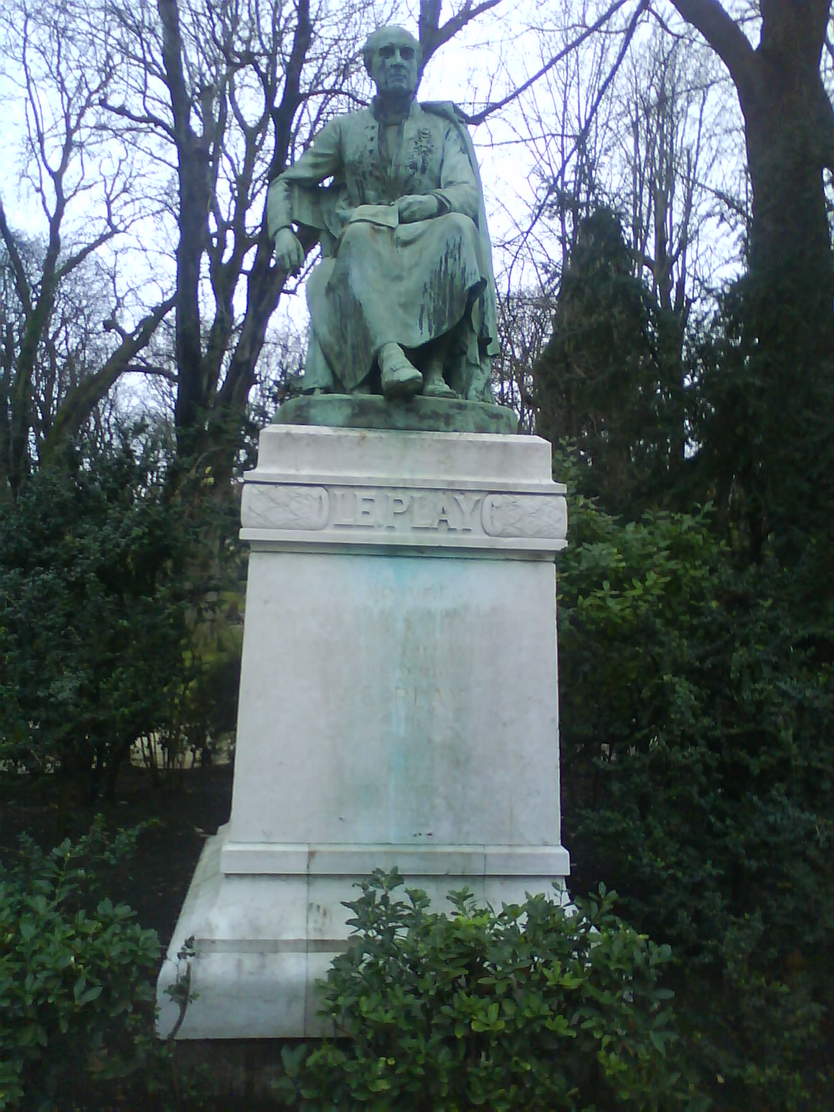 André-Joseph Allar (French, 1845-1926): Pierre Guillaume Frédéric Le Play (1906), Paris, Jardin du Luxembourg.